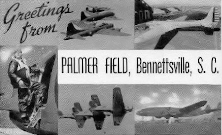 1943 - Palmer Fieldm South Carolina Postcard